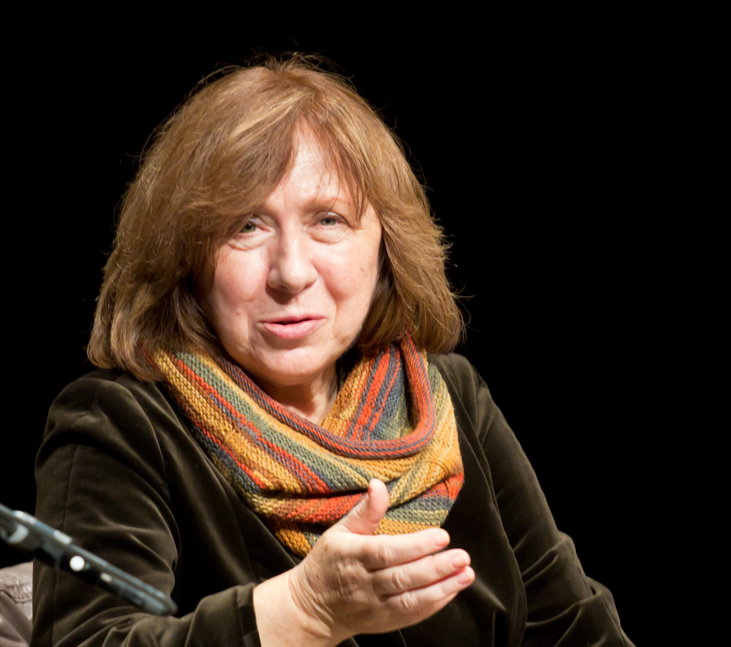 Svetlana Alexievich, a Belarusian investigative journalist and prose writer, Nobel laureate in Literature 2015